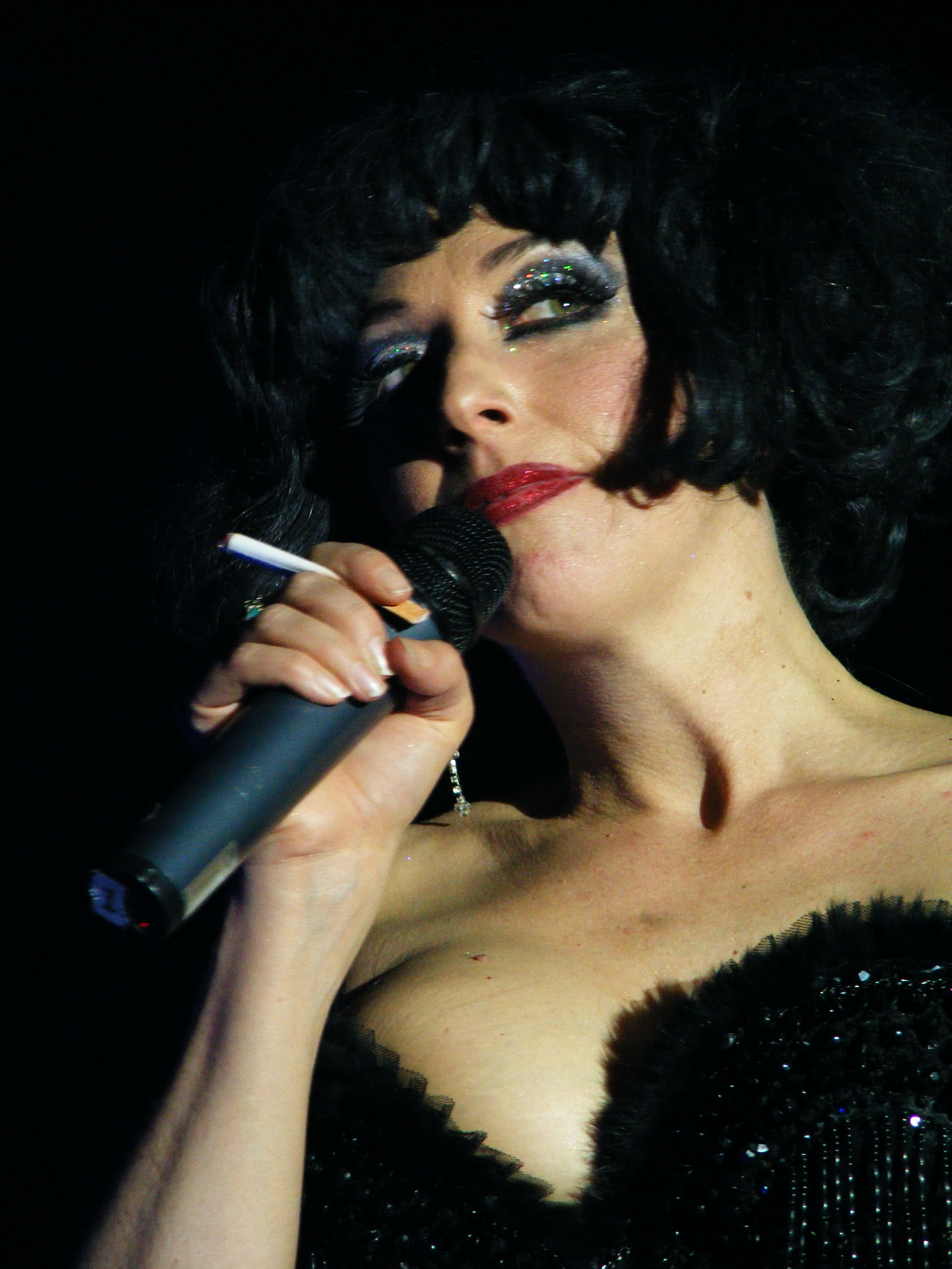 The utterly fabulous Meow Meow (Melissa Madden Gray) at the Spiegeltent, Manchester, as part of the Queer Up North Festival on Saturday the 29th of May 2010.